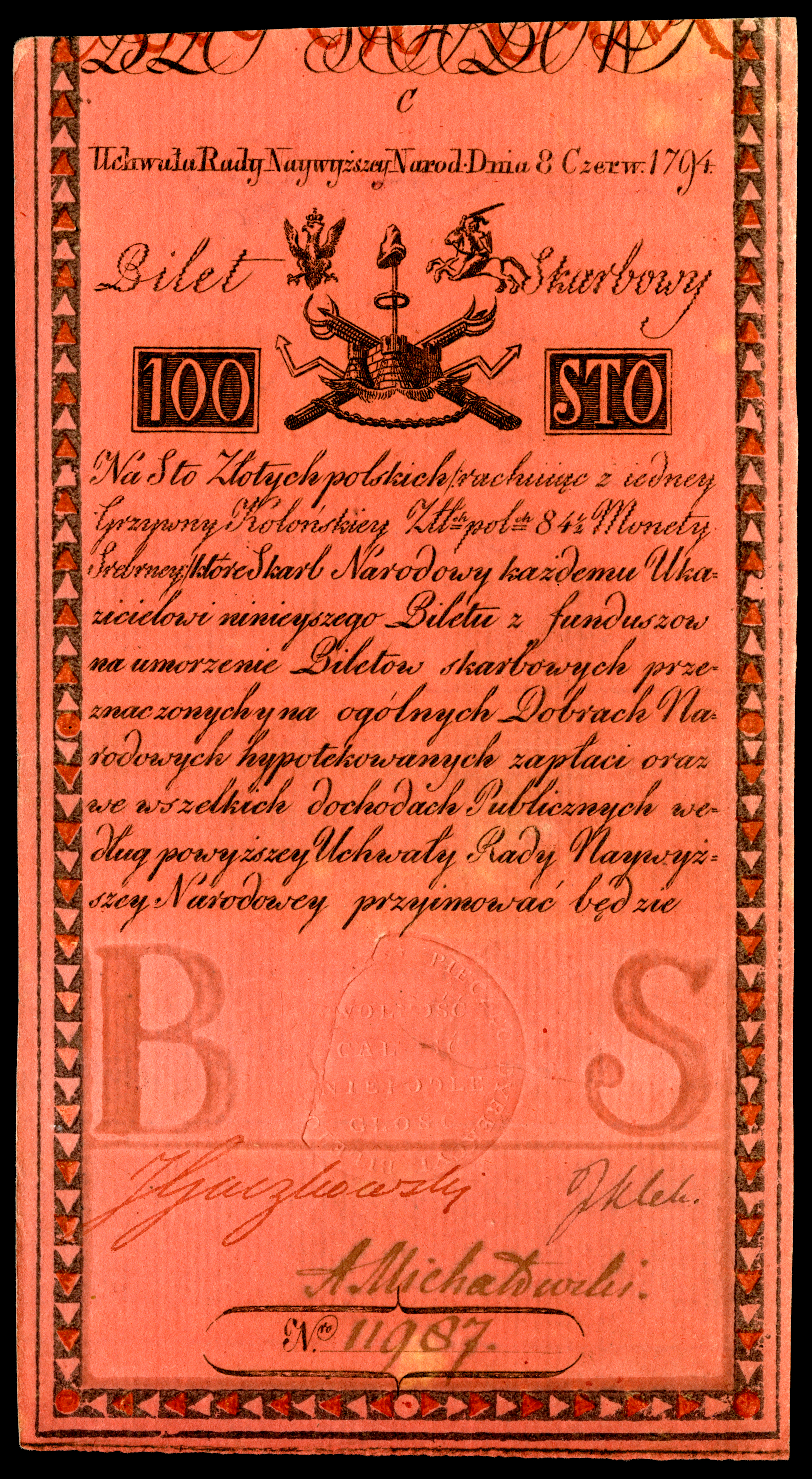 Bilet Skarbowy-100 Zlotych (1794 First Issue) Issue date 8-Jun-1794, signature of A. Michaelowski